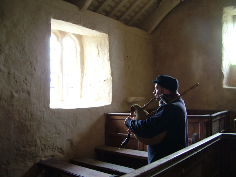 Ceri Rhys Matthews playing the Welsh Bagpipe in Llanfaglan Church